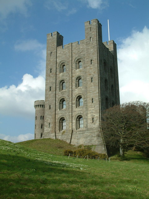 Penrhyn Castle. This view is taken from the drive during the National Trust's snowdrop weekend.